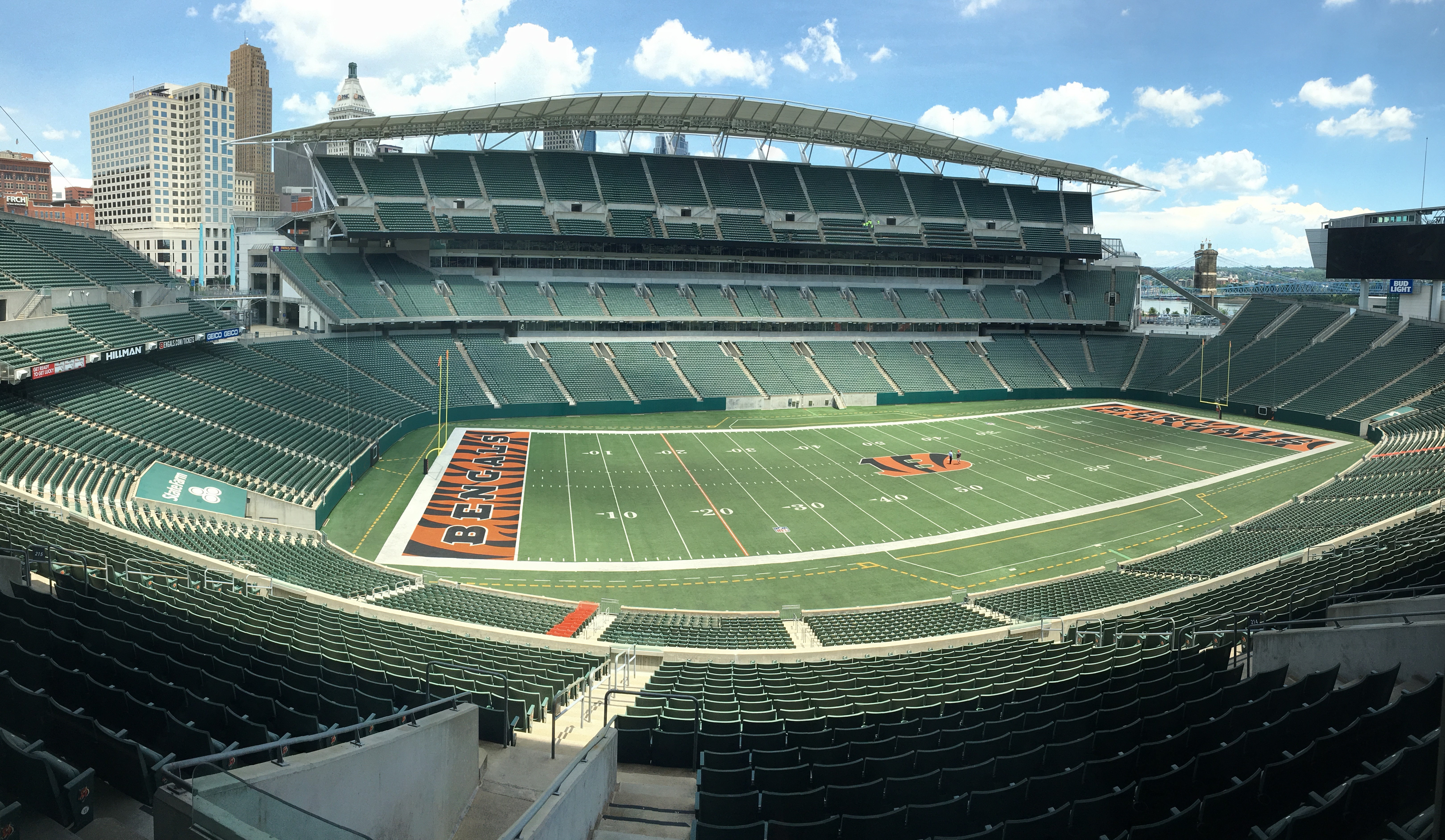 Interior view of Paul Brown Stadium in Cincinnati, home field of the Cincinnati Bengals.